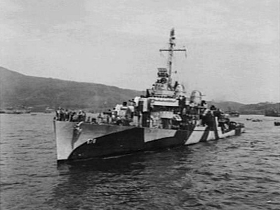 The U.S. Navy destroyer USS Wickes (DD-578) at Hollandia (since 1962: Jayapura), Humbolt Bay, Dutch New Guinea, on 8 November 1944.